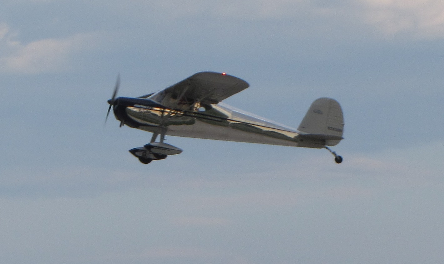 Cessna 140 on takeoff